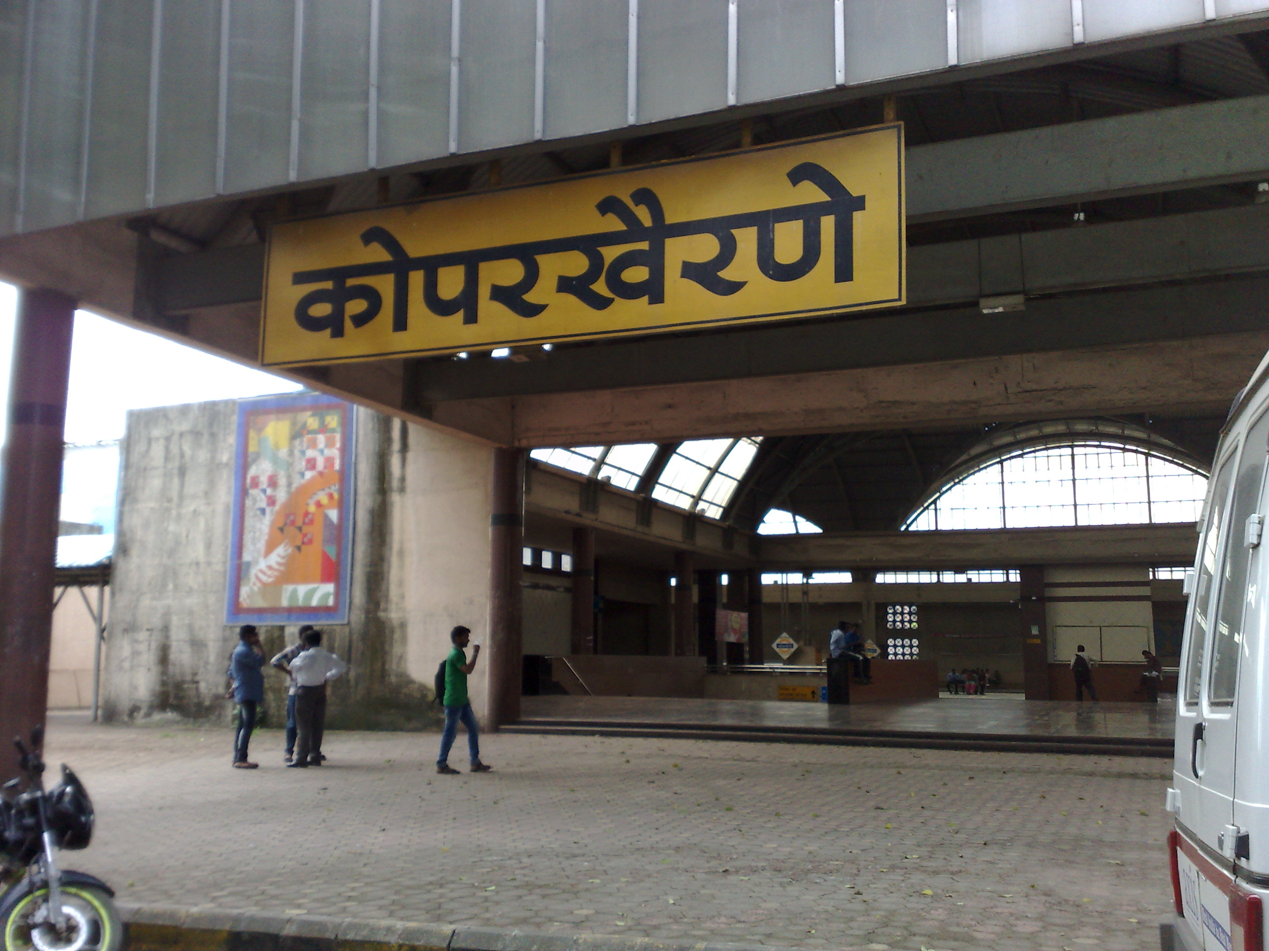 kopar khairane entrance